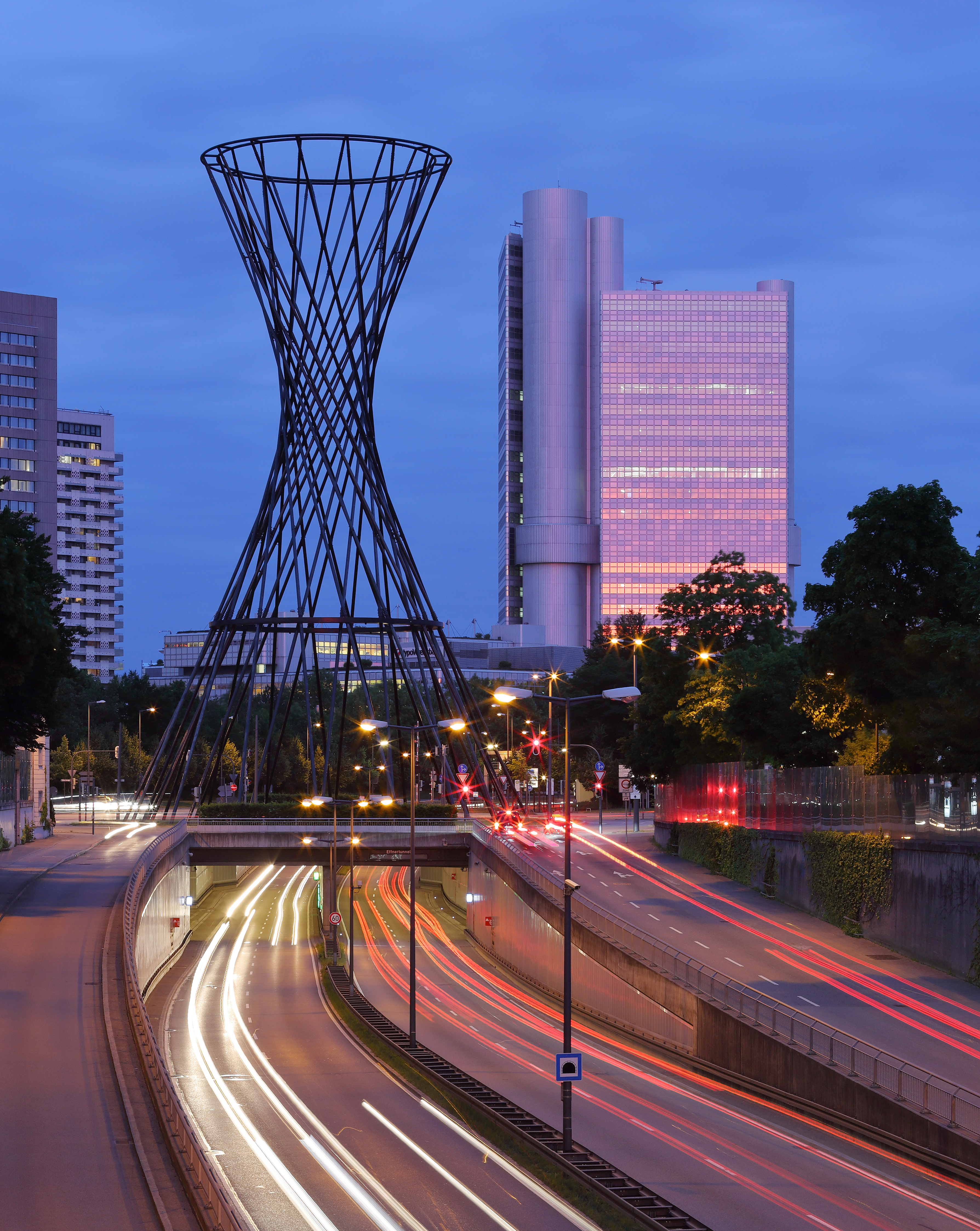 Munich's HVB Tower and "Mae West", a sculpture on Effnerplatz, at dusk.